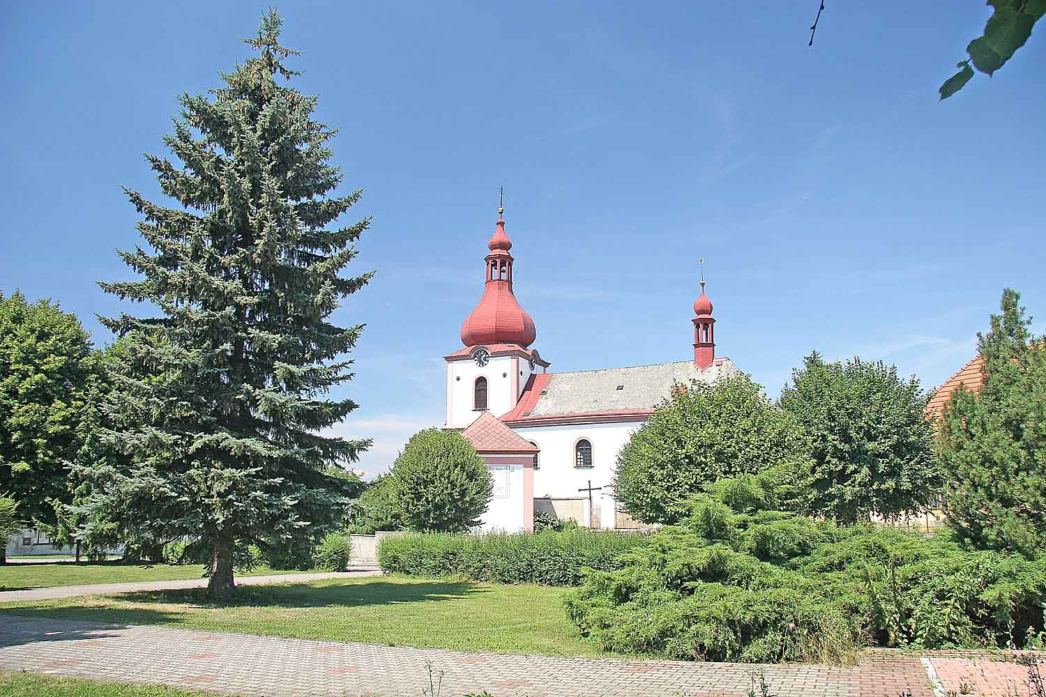 SS Peter and Paul church in Nemyčeves, Jičín District, Hradec Králové Region, Czech Republic autor: Prazak date: 20. 7. 2006